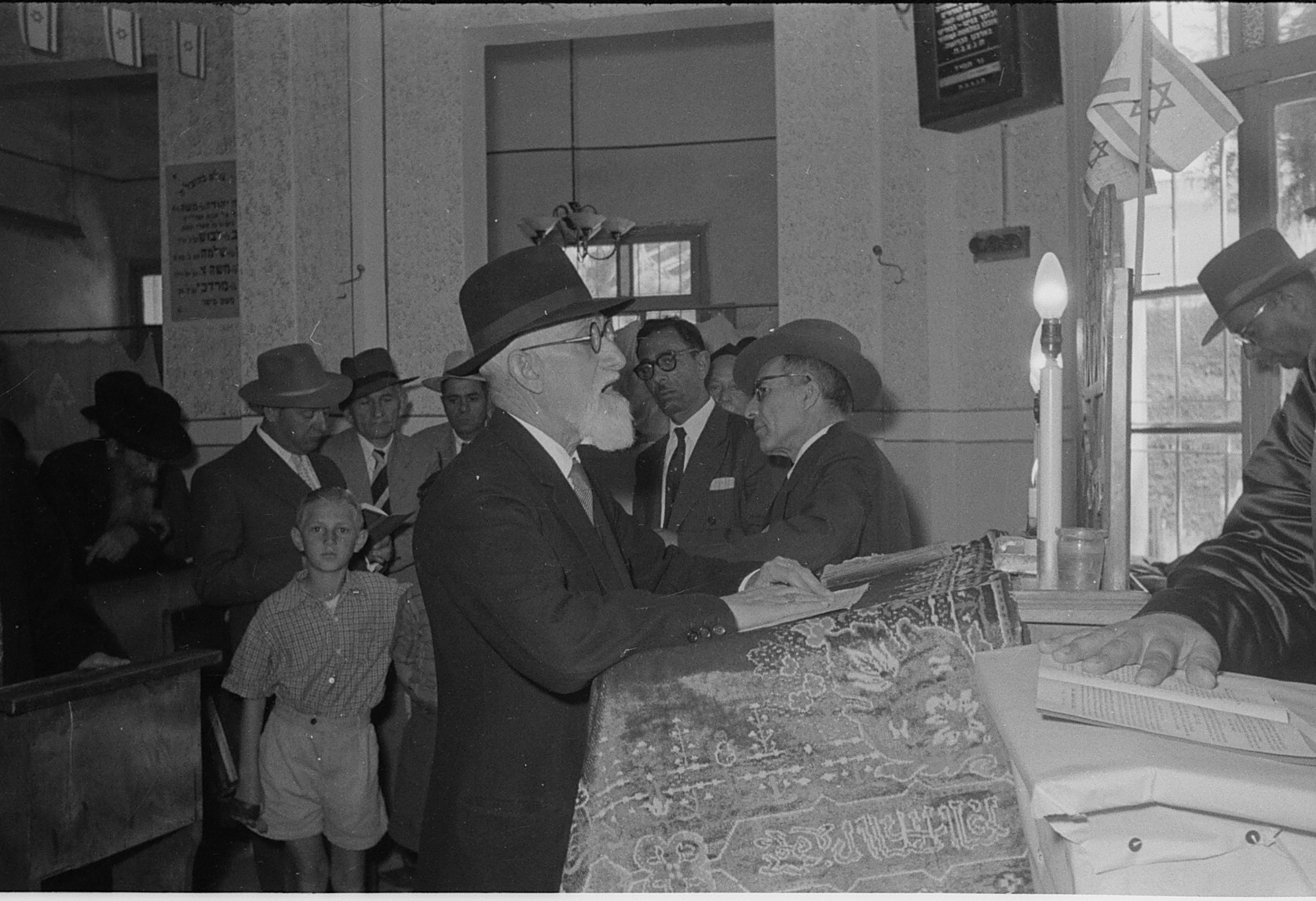 People of Israel